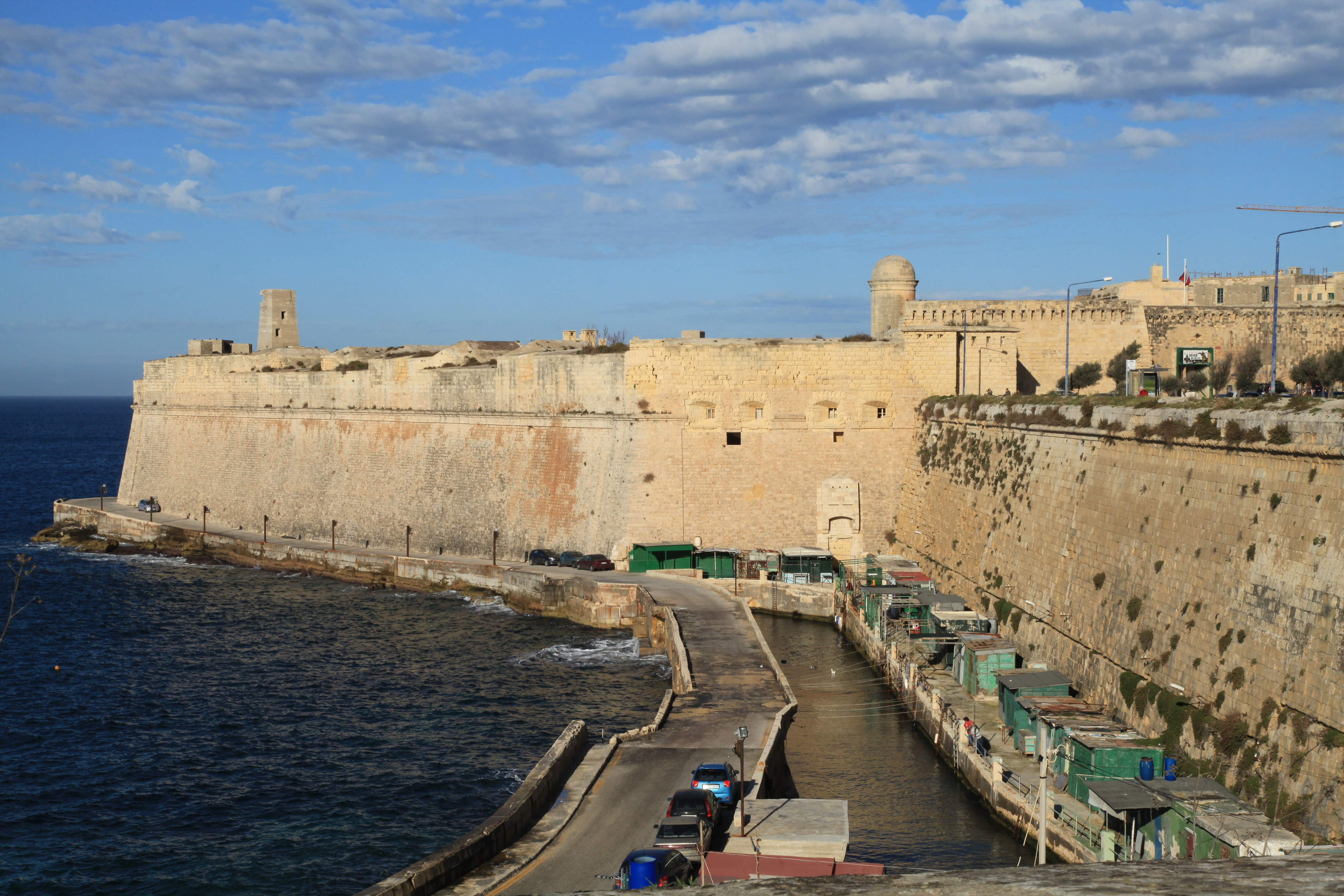 Triq il-Lanċa and Fort Saint Elmo in Valletta, Malta